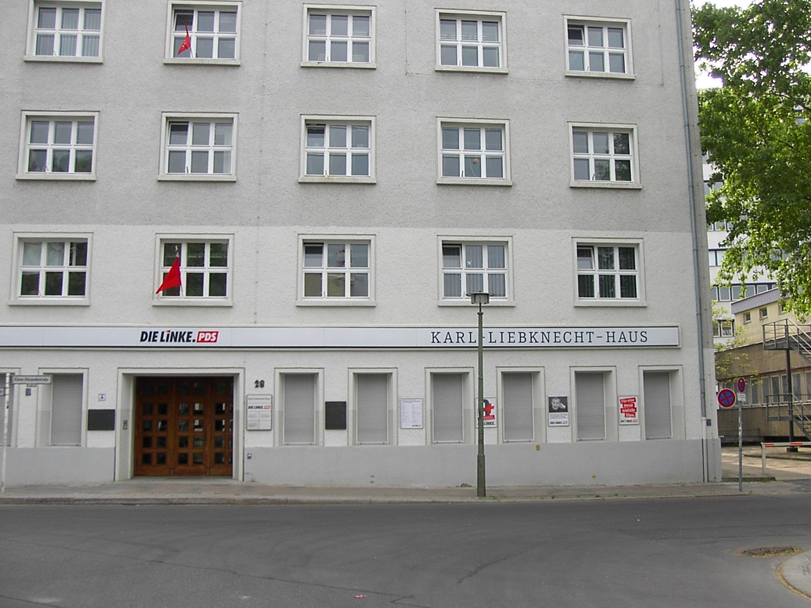 Karl Liebknecht Haus